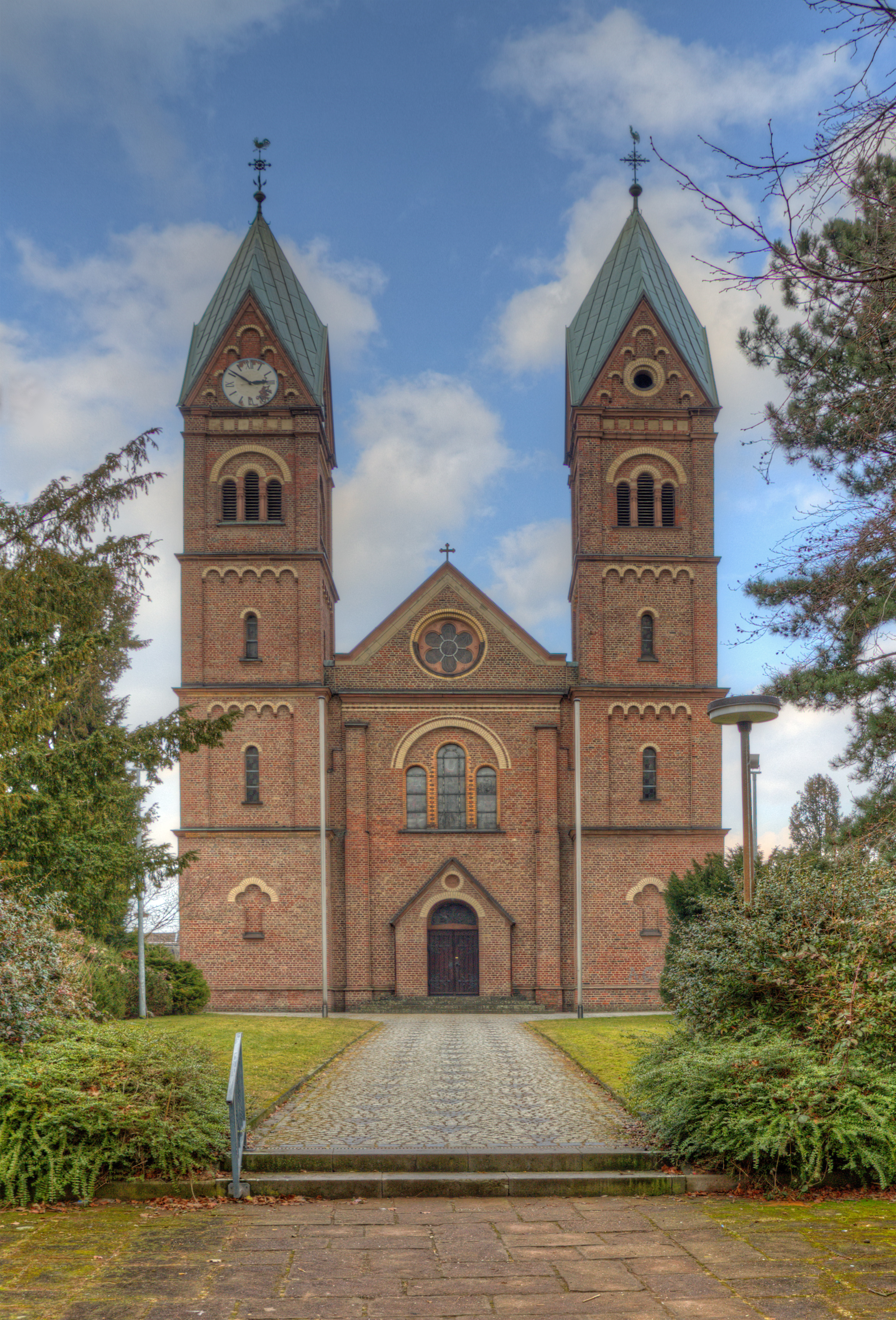 Church St. Stephanus in Leverkusen-Hitdorf